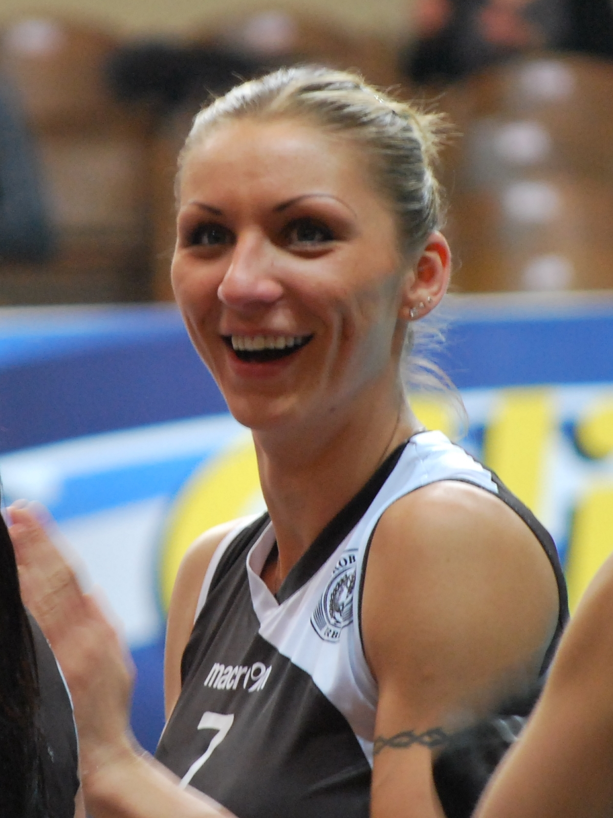 Valdonė Petrauskaitė, lithuania volleyball player